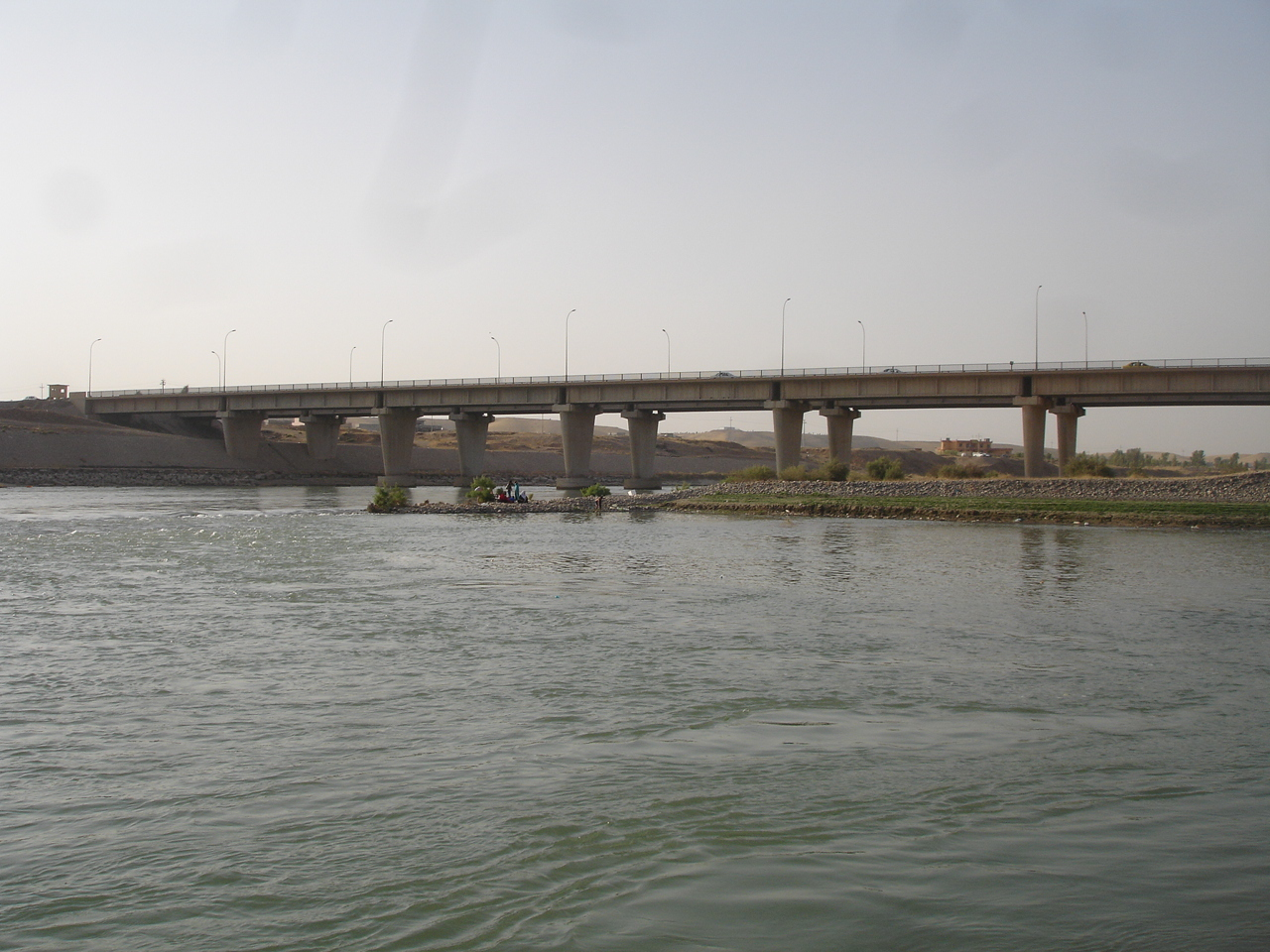 A bridge over the Khazir river on the road between Mosul and Arbil in northern Iraq.